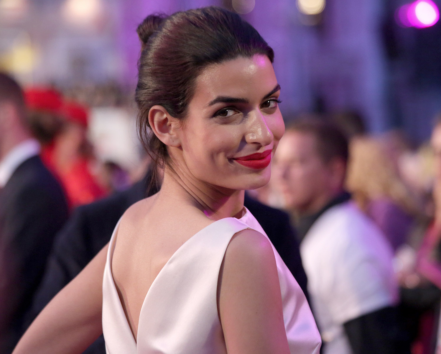 Tonia Sotiropoulou on the 'magenta carpet' at Life Ball 2013 at the square in front of the city hall of Vienna, Vienna, Austria.